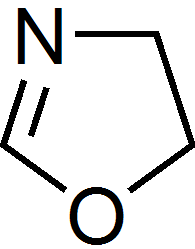 most commonly found isomer of oxazoline